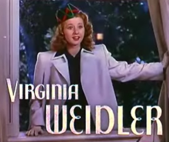 Cropped screenshot of Virginia Weidler from the trailer for the film Best Foot Forward